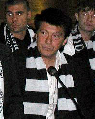 Rinat Dasayev, russian football coach and former soviet goalkeeper